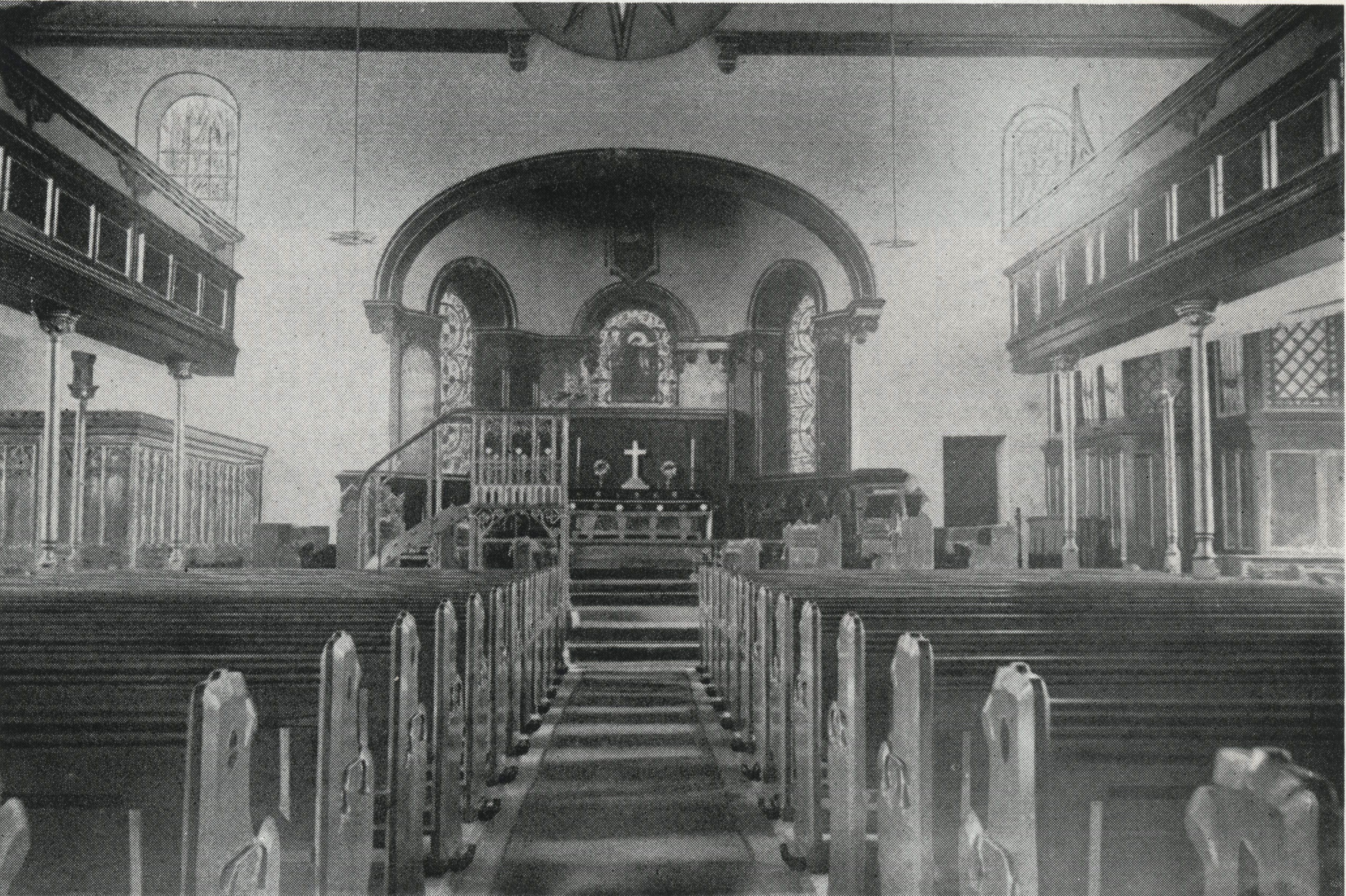 Old St Matthew's Chapel, Chapel Allerton, Leeds, West Yorkshire, England. Replaced 1900 with the current St Matthew's church, and Old St Matthew's Chapel was demolished 1935. Between 1900 and 1935 it was used for meetings, then became unsafe. Carving in Old St Matthews was executed during the 1861-1863 re-fit by Mawer & Ingle. Showing interior of Old St Matthews, in 1882-1884.